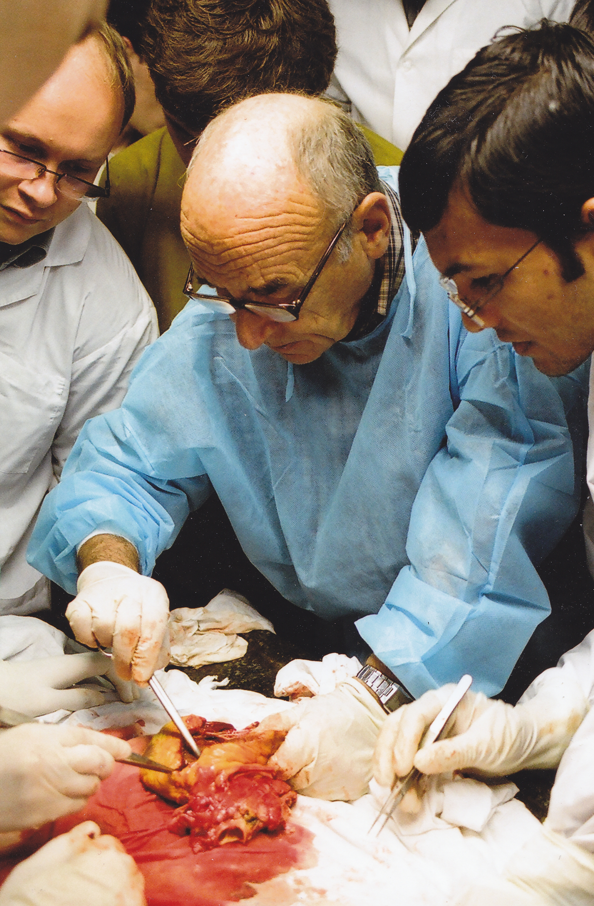 Prof. George E. Falkowski during the heart anatomy course in Moscow in May 2010